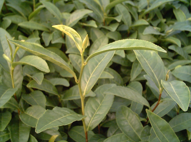 Japanese tea, phoro taken in Tokorozawa, Saitama pref., Japan. photography day, 2006.9.7. photography person Tokoroten